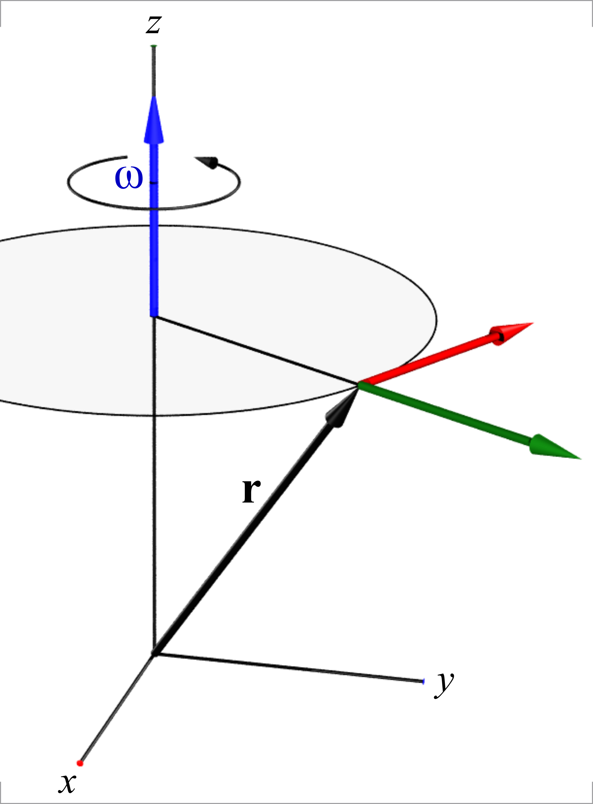 Euler force